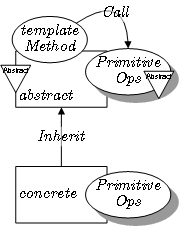 Template Method design pattern in the LePUS3 Design Description Language